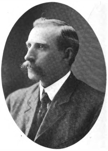 William H. Taylor (Vermont Supreme Court Justice) 2